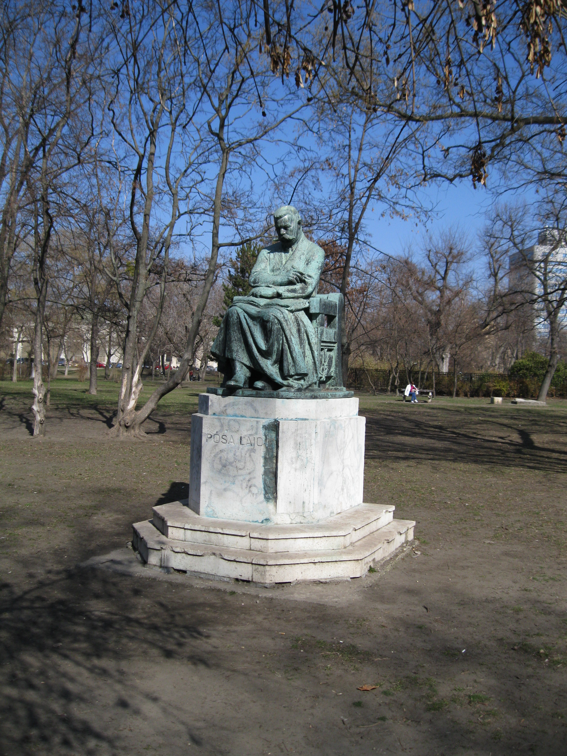 Sculpture of the writer Lajos Pósa, Budapest District XIV, City Park